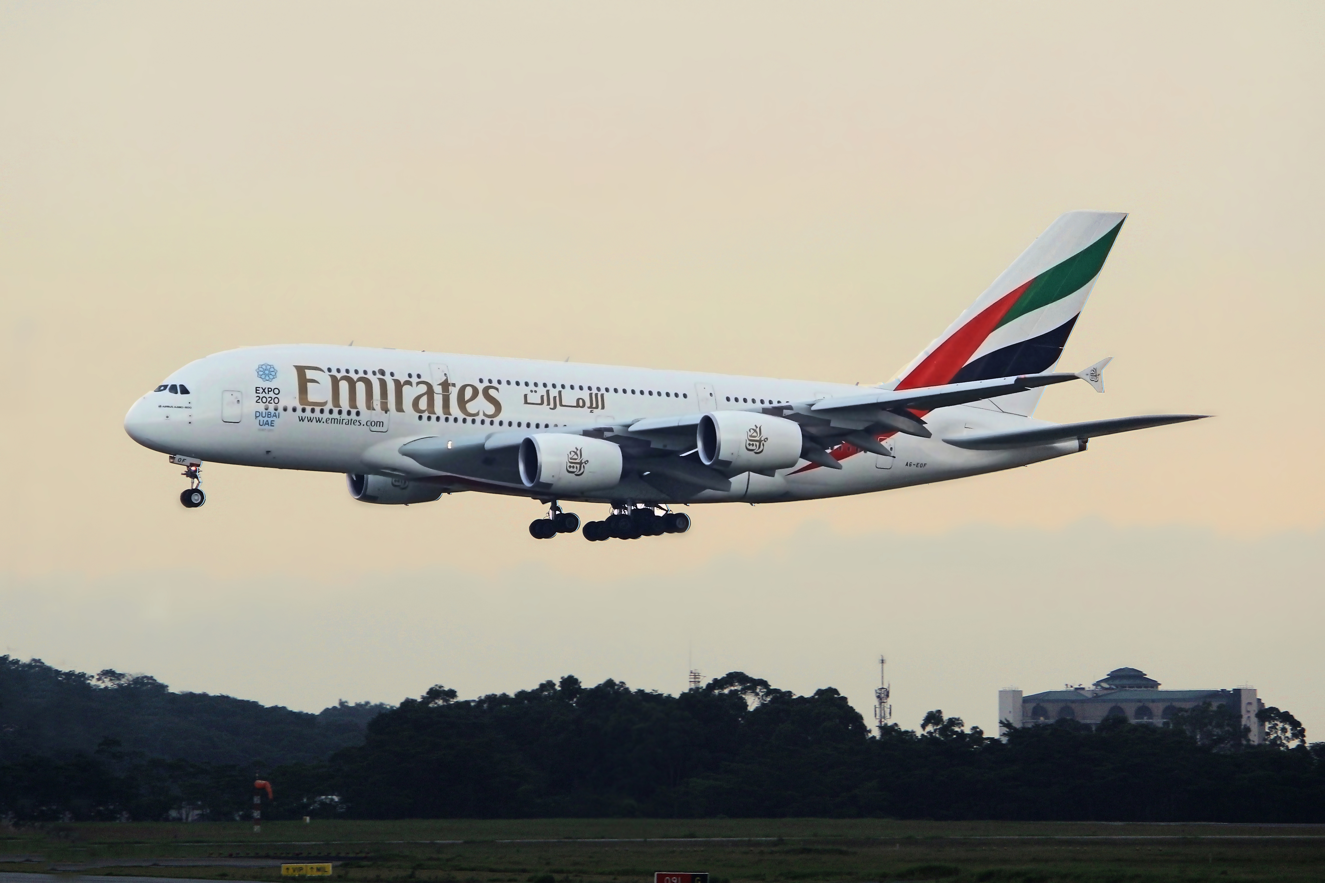 A380-800 EMIRATES SBGR